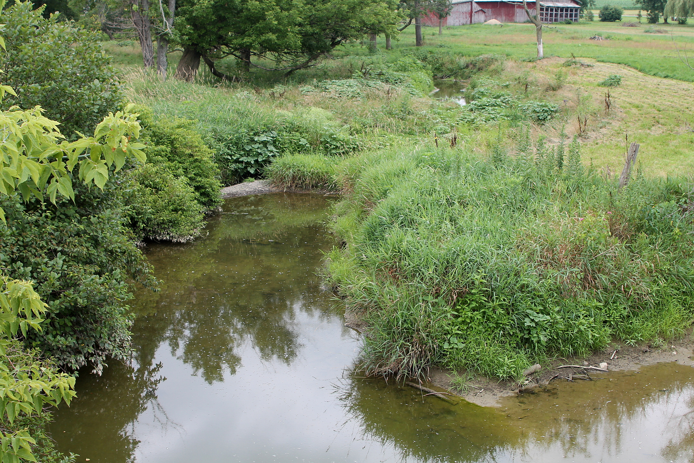 Mud Creek, a tributary of Chillisquaque Creek